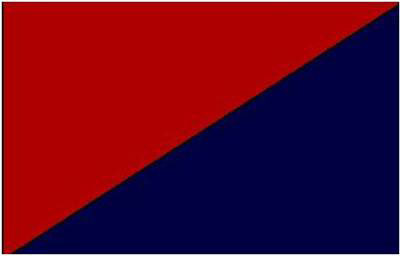 Police flag colours